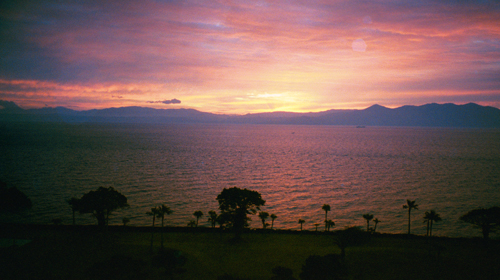 Sunset in Ibusuki, Japan. Photo by Robert La Ferla.